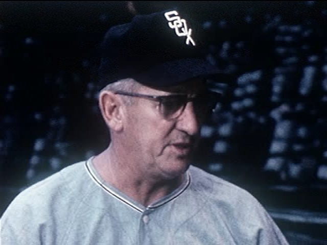 Frame from the promotional film "WJR: One of a Kind". Chicago White Sox manager Al Lopez